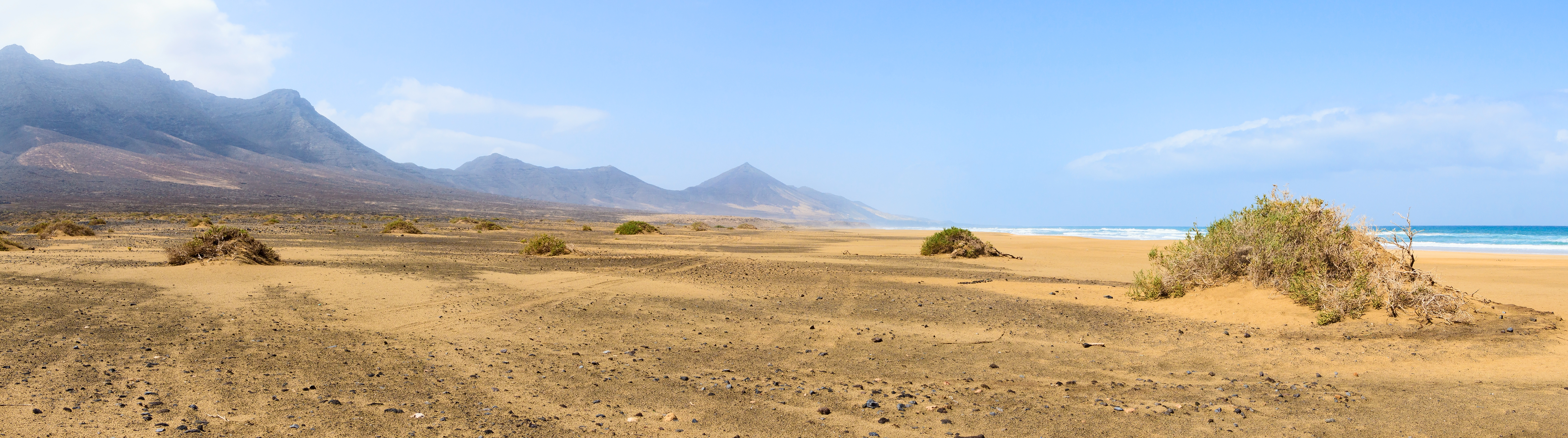 Playa de Cofete; Jandía, Fuerteventura, Canary Islands, Spain.